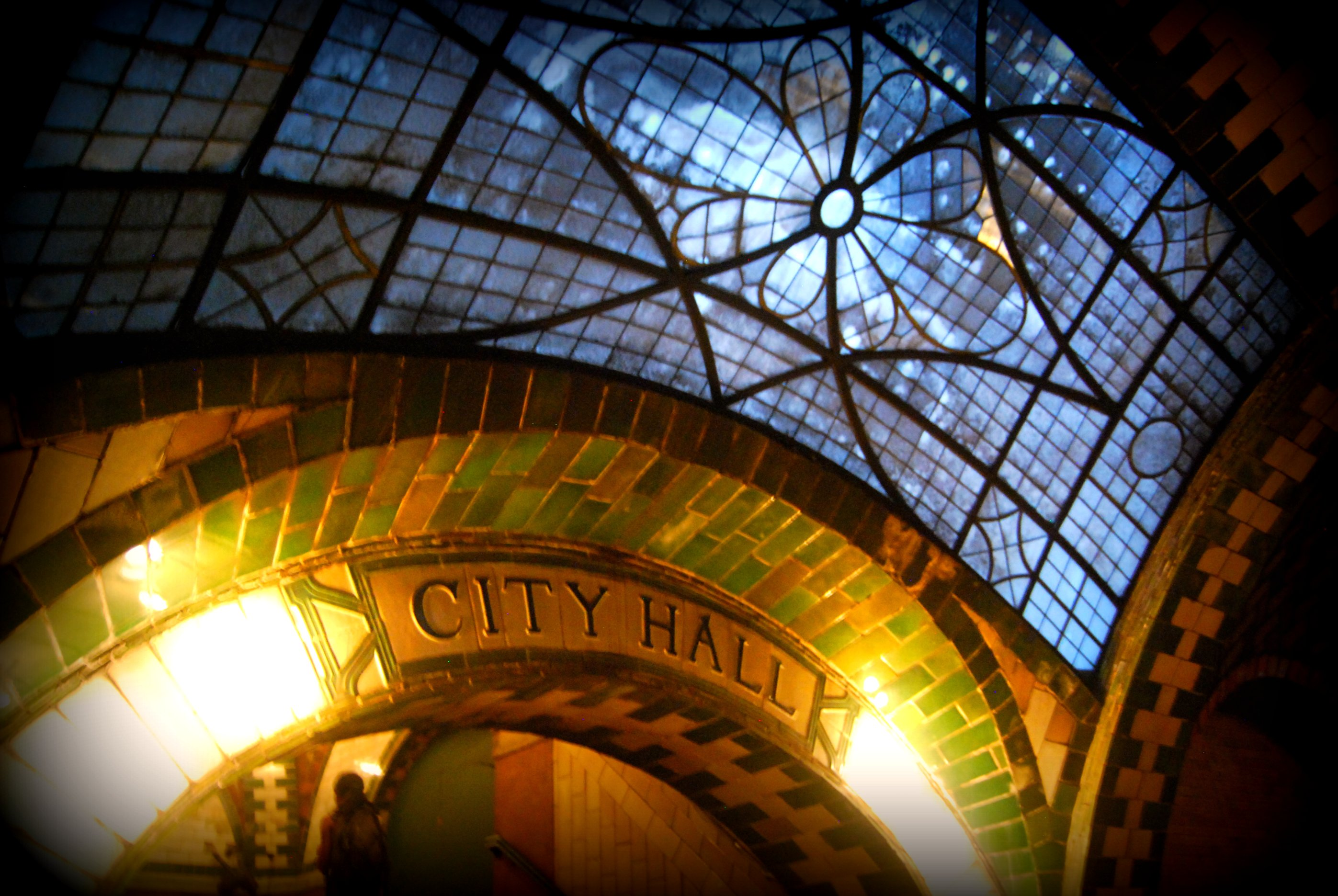 Arch and Skylight at City Hall Subway Station